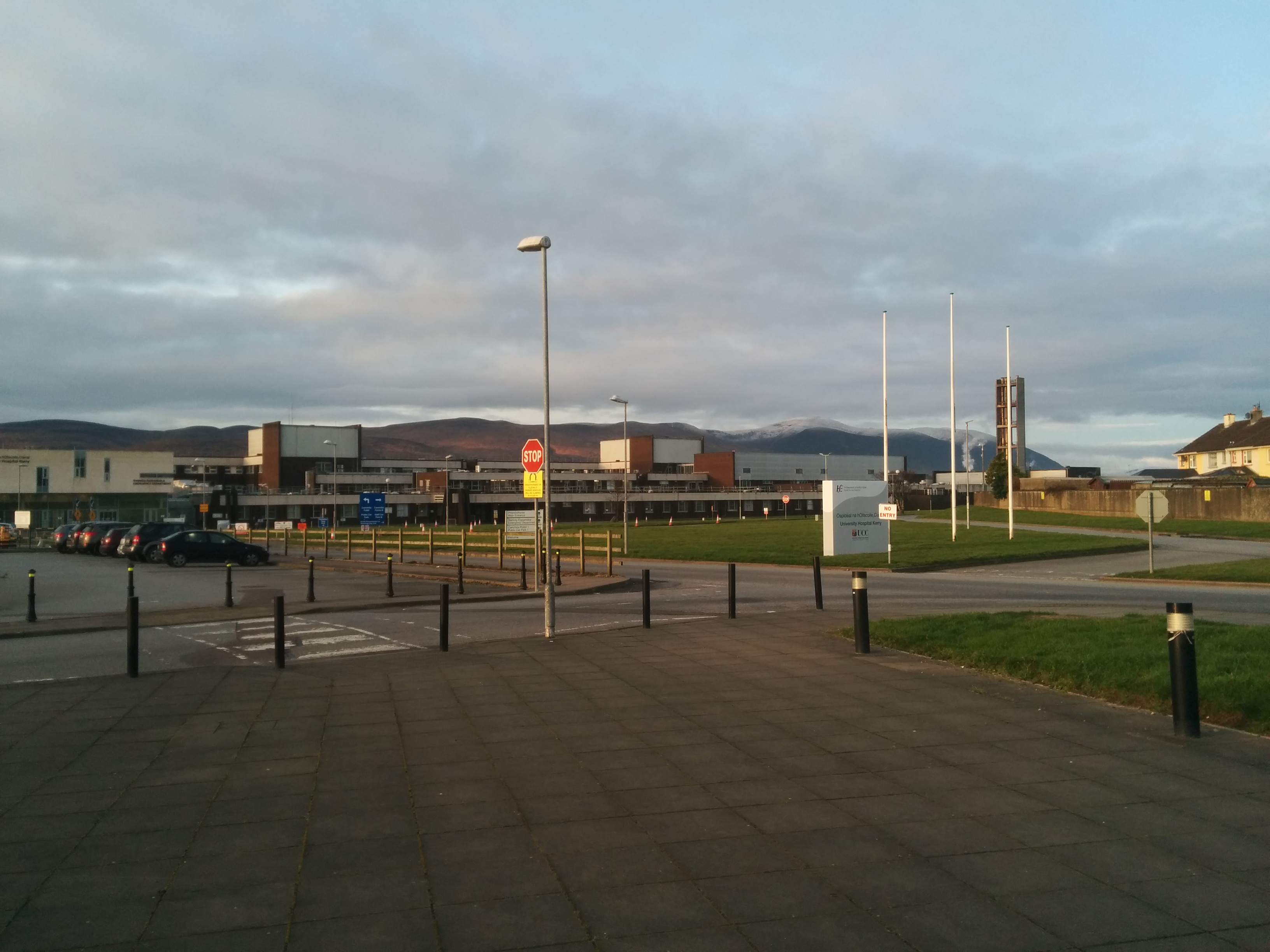 University Hospital Kerry, Tralee, Co Kerry, Ireland. Formerly known as Kerry General Hospital.